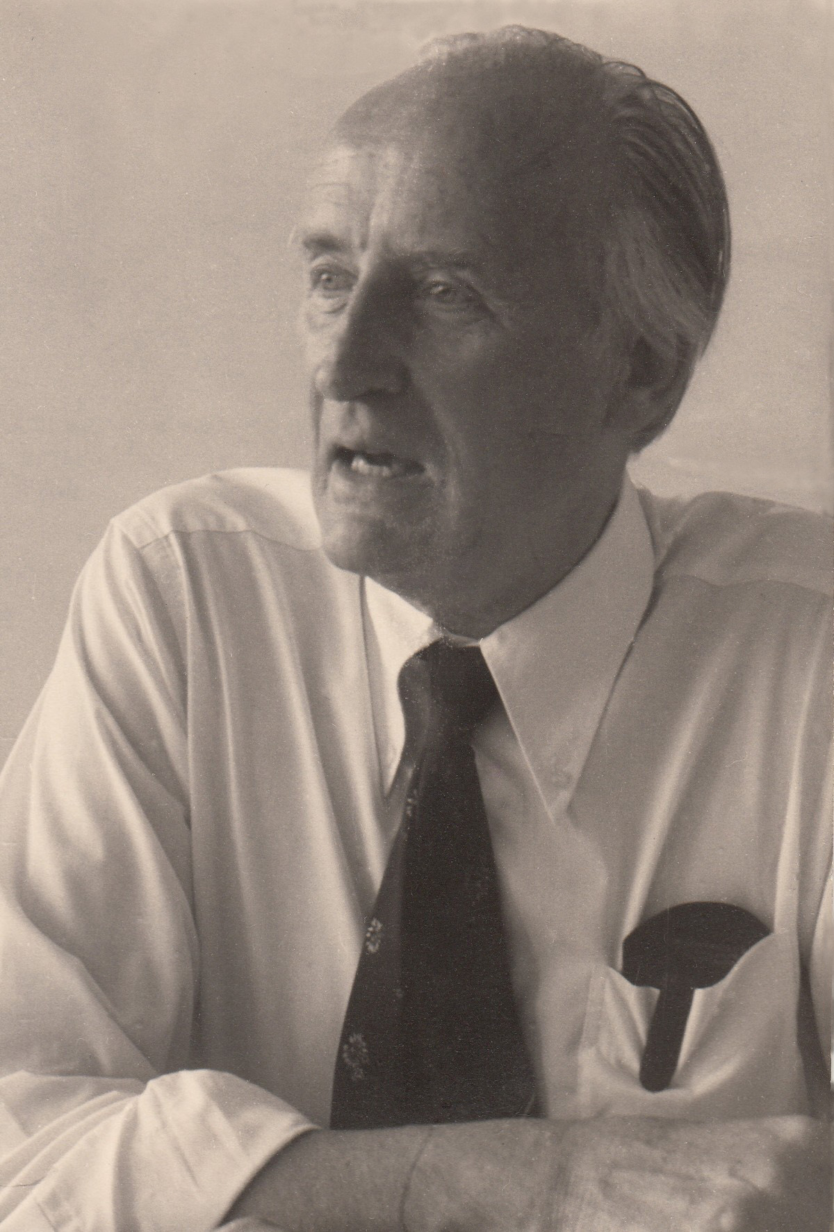 Helmut Gröttrup as Managing Director at GAO, Munich, circa 1977